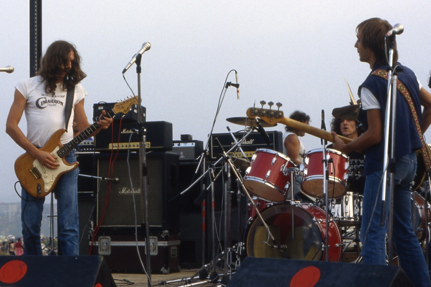 Leño playing live on 28 August 1981.